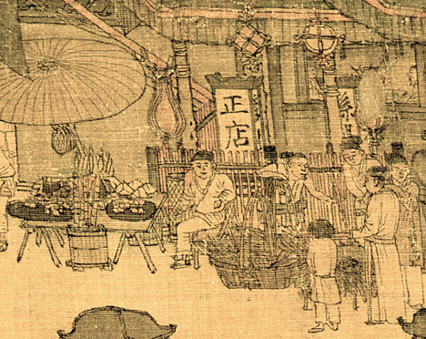 Close-up detail of the Chinese cityscape handscroll Along the River During Qingming Festival, ink and colors on silk, 25.5 × 525 cm.